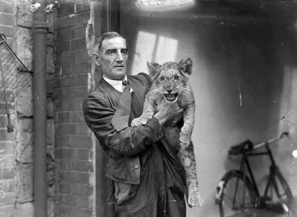 Accompanying this gorgeous lion cub is Mr Flood, who worked at Dublin Zoo for many years. Date: Circa 1936 NLI Ref.: IND_H_2883